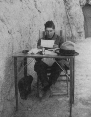 Henri Frankfort in the 1930's